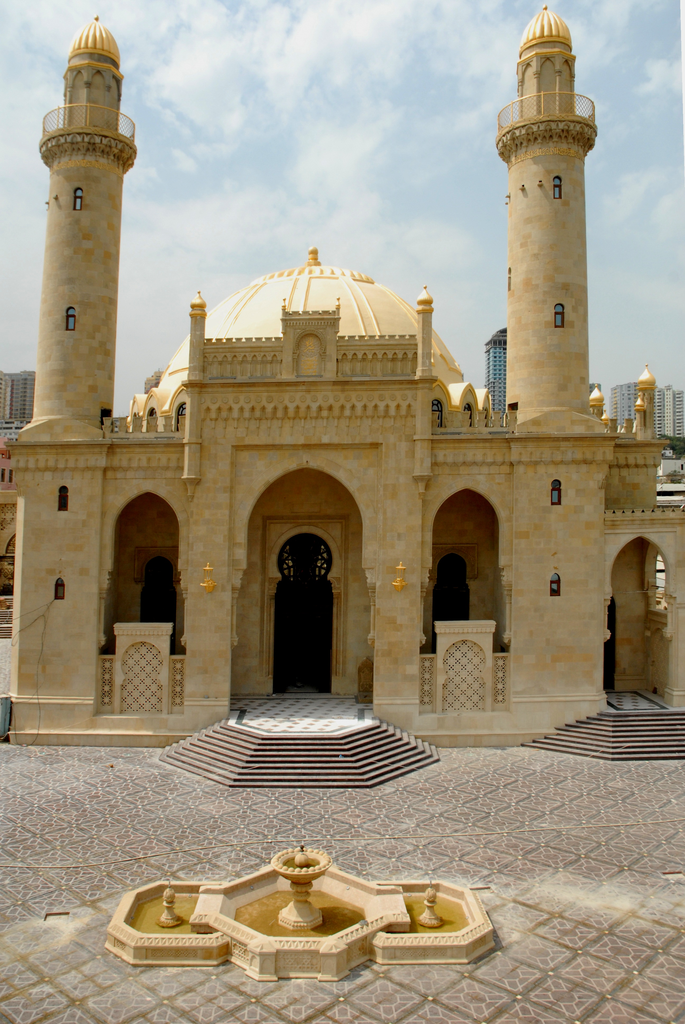 Tezepir mosque in Baku built in 1914